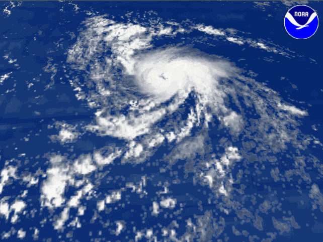 Hurricane Joyce of 2000.